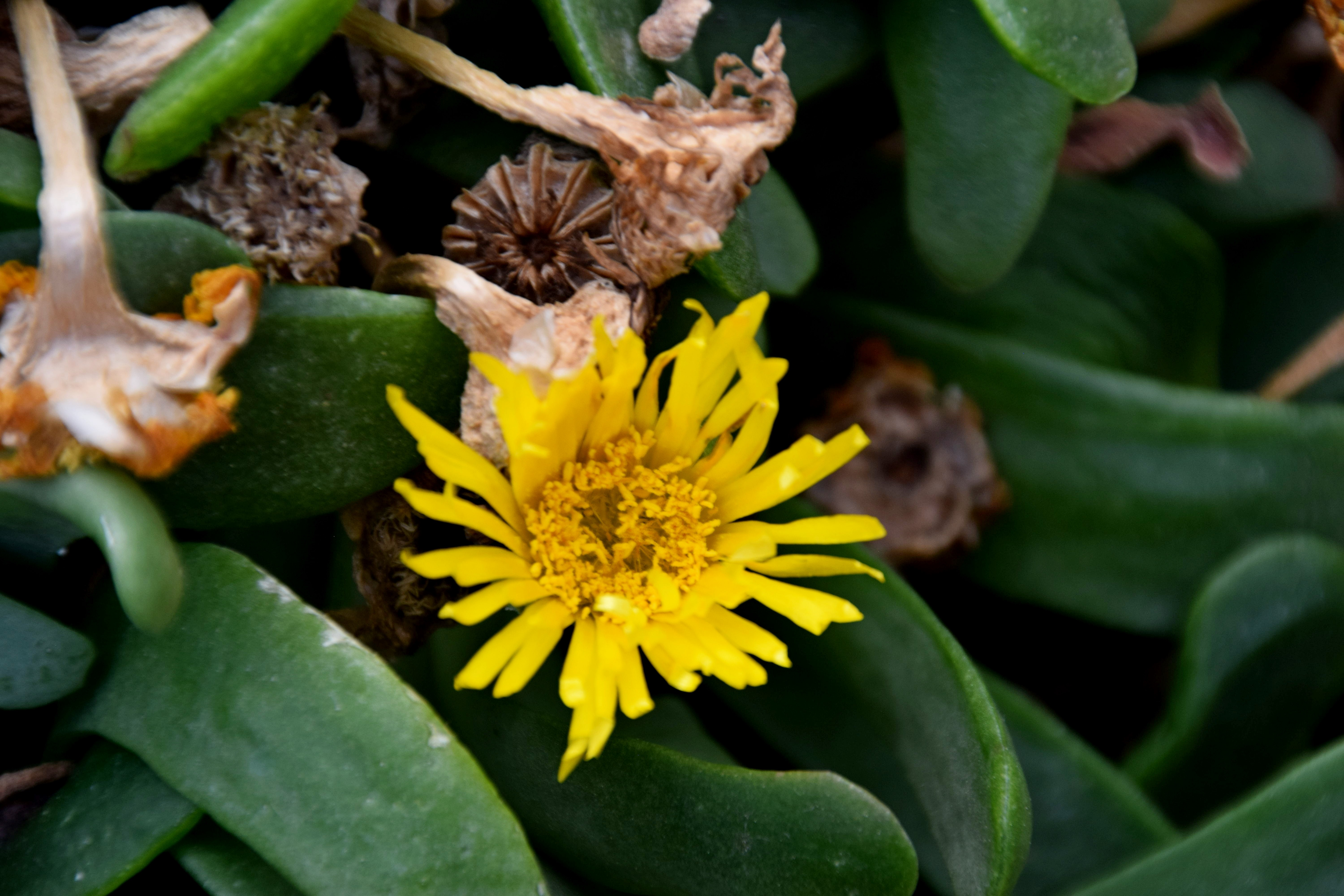 Some specimens of Glottiphyllum in Tropengewächshäuser des Botanischen Gartens, Hamburg